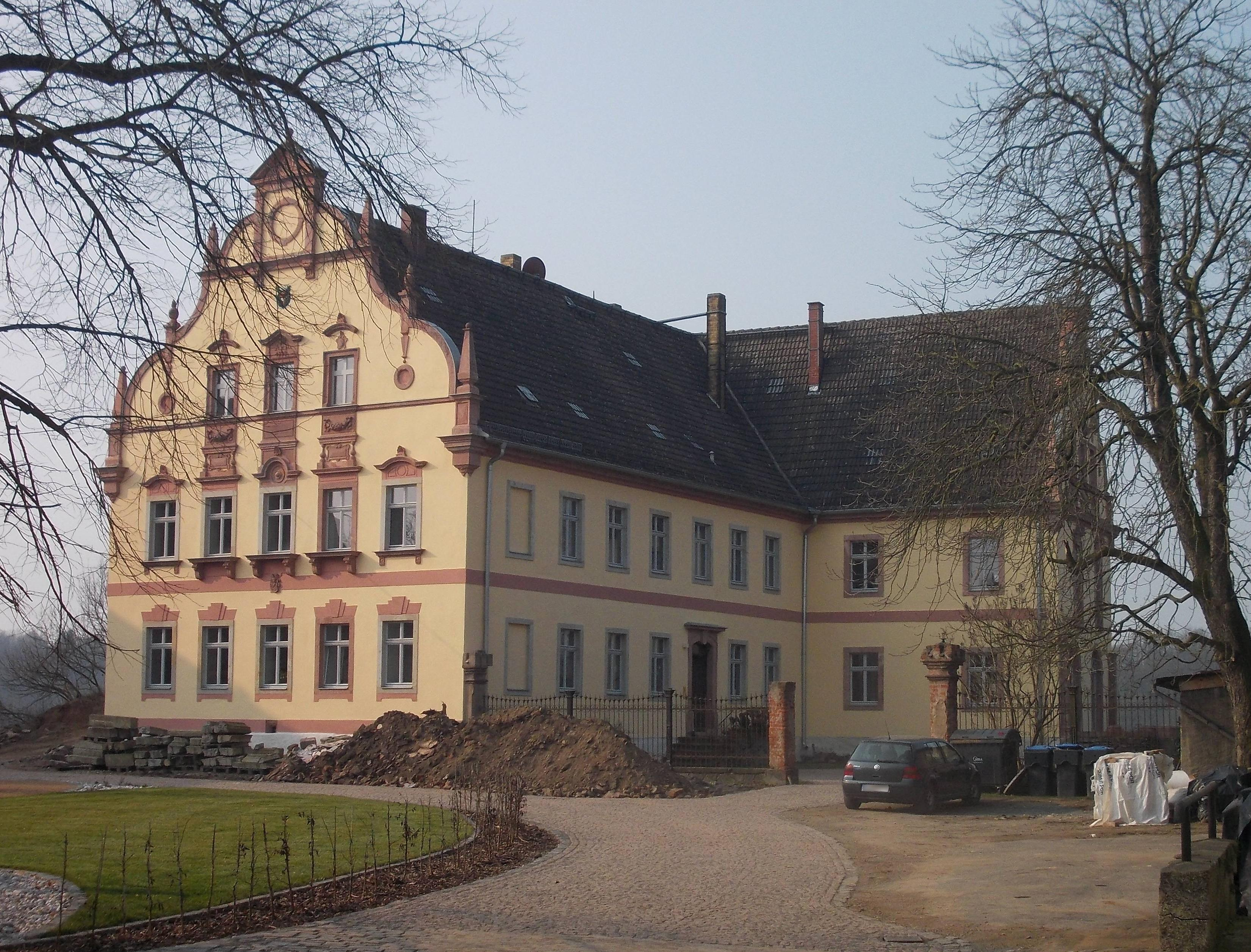 Kössern maor house (Grimma, Leipzig district, Saxony)